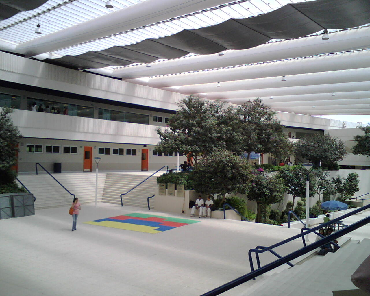 The Monterrey Institute of Technology and Higher Education, Morelia Campus in Western Mexico.